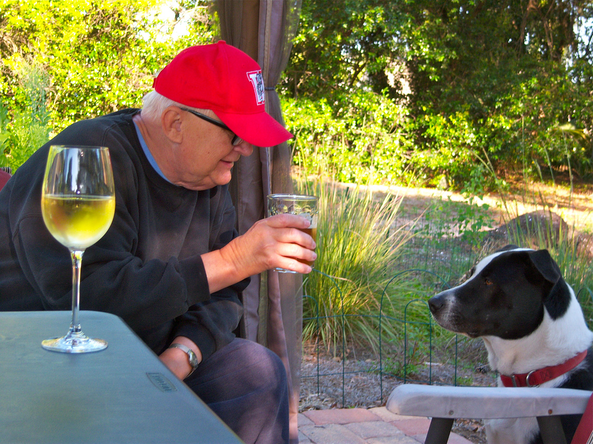 Donald Ungurait with man's best friend "Sabre"